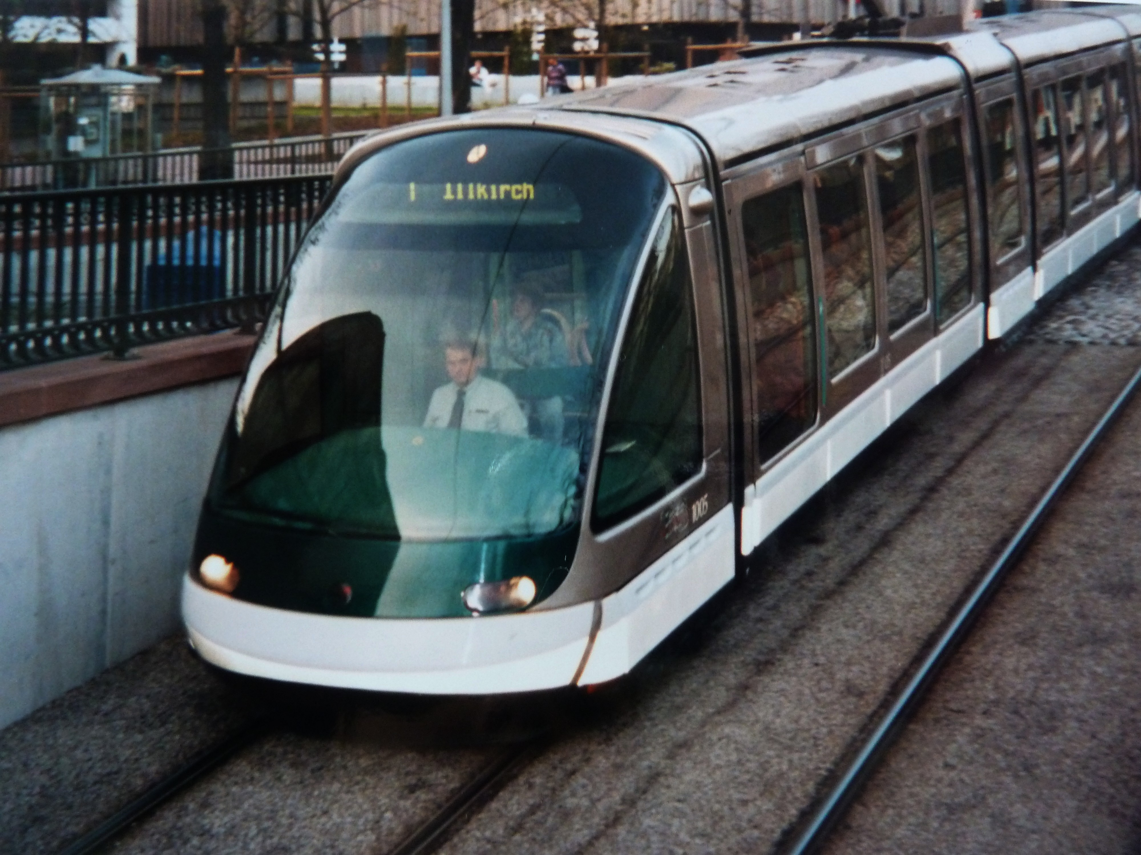 Tramway of Strasbourg France Neerman Consulting (J Neerman)